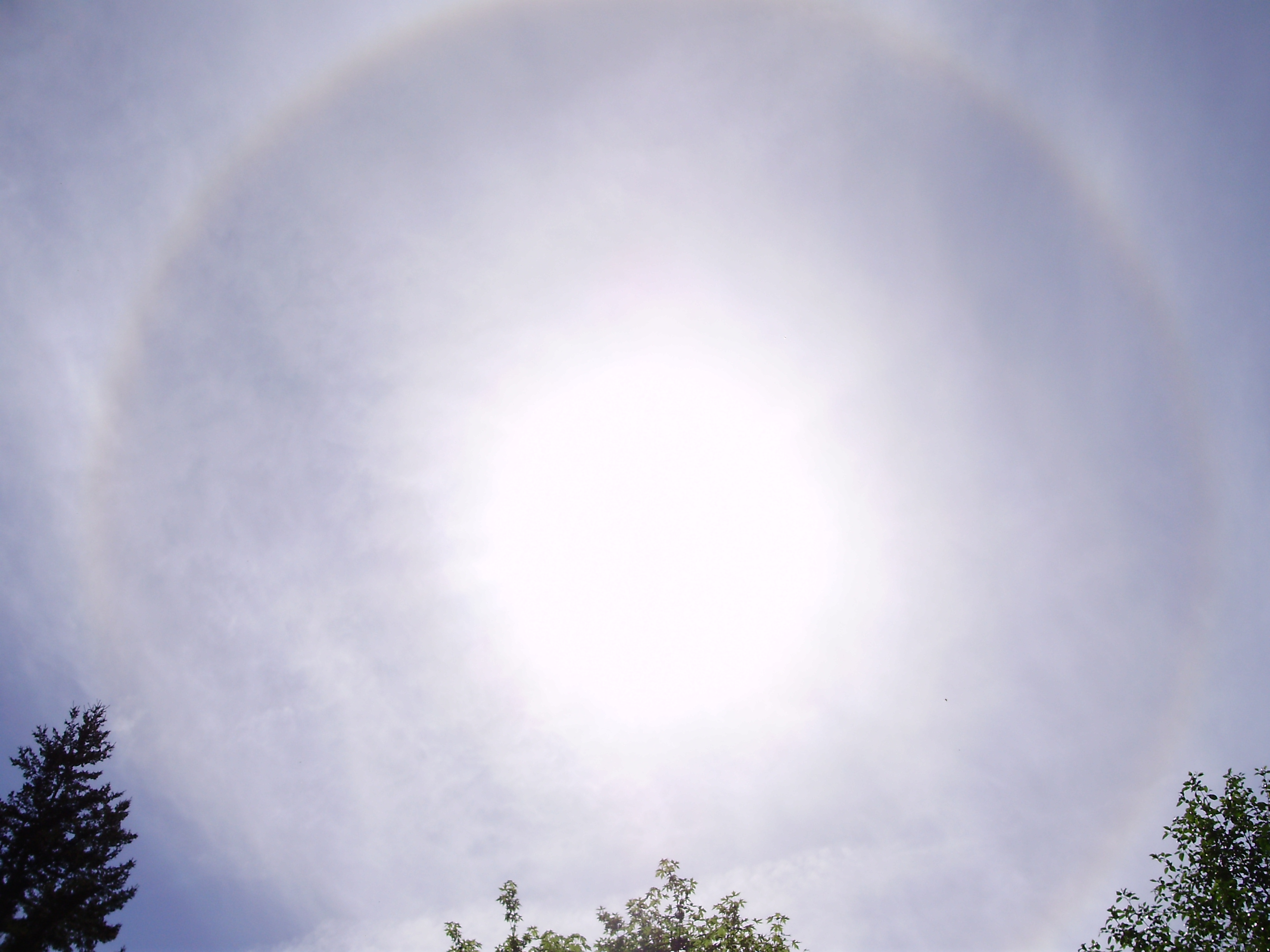 Thick cirrostratus clouds forming a halo around the sun. Photo taken in Langley, BC